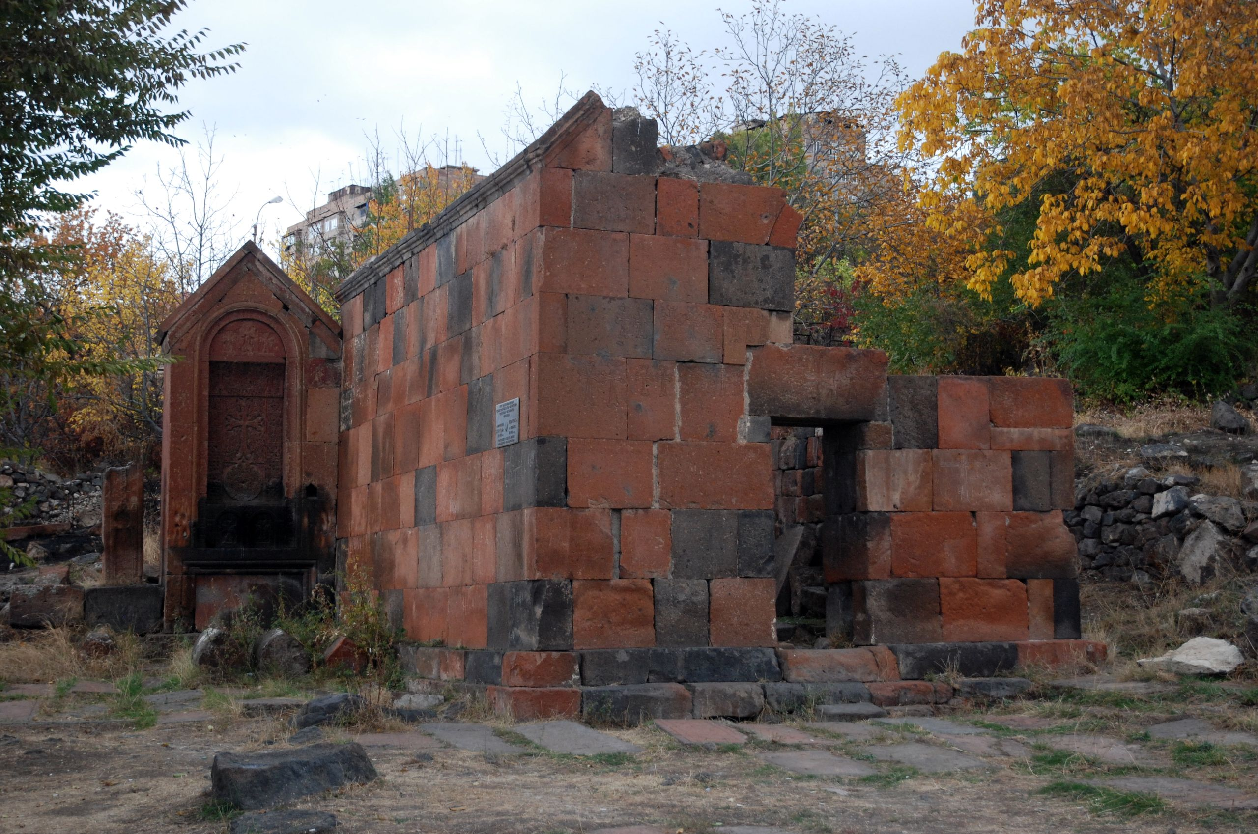 Avan, Surb Hovhannes chapel